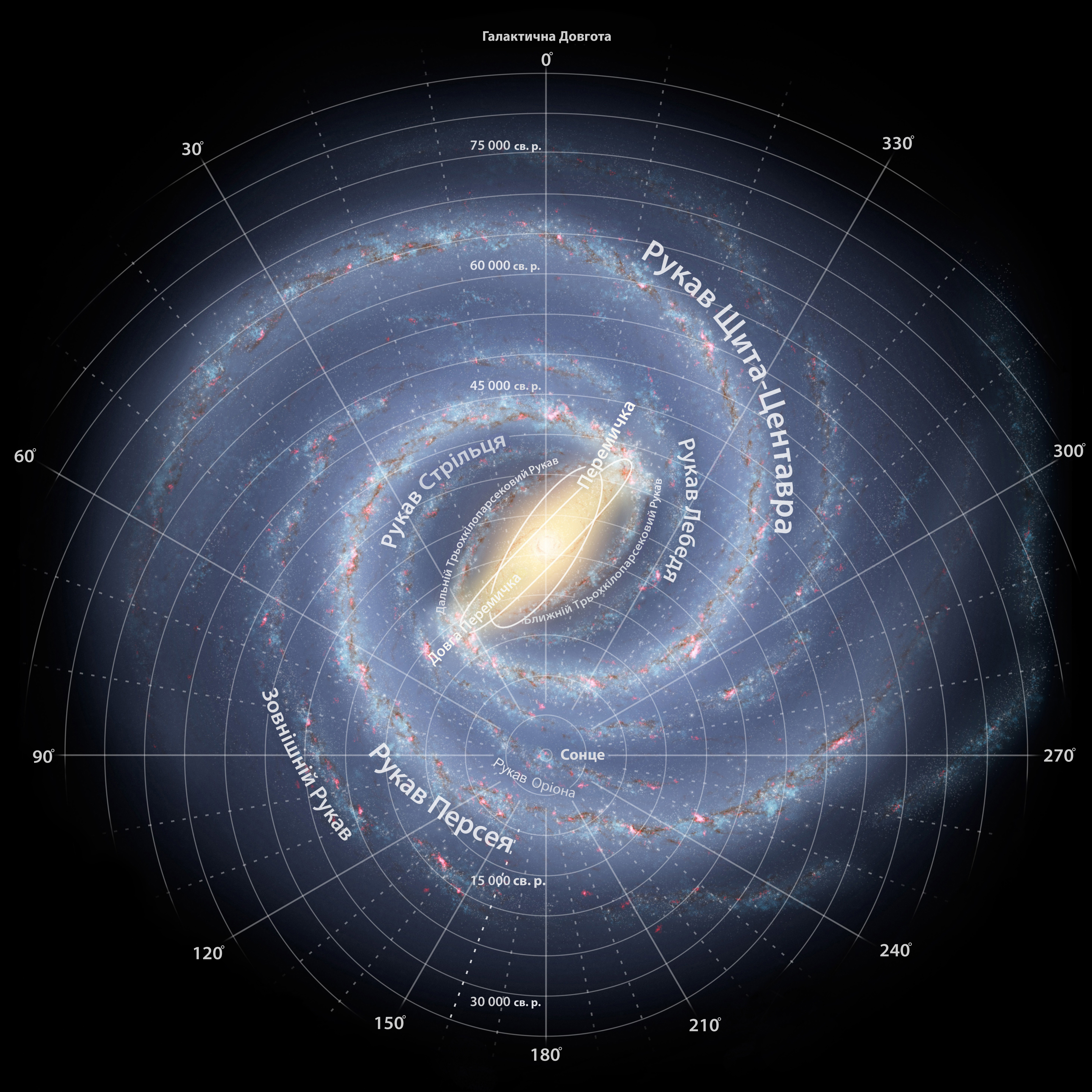 Artist's conception of the spiral structure of the Milky Way with two major stellar arms and a central bar. "Using infrared images from NASA's Spitzer Space Telescope, scientists have discovered that the Milky Way's elegant spiral structure is dominated by just two arms wrapping off the ends of a central bar of stars. Previously, our galaxy was thought to possess four major arms."